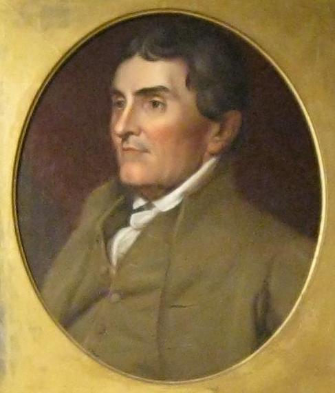 Portrait of Thomas Forrest